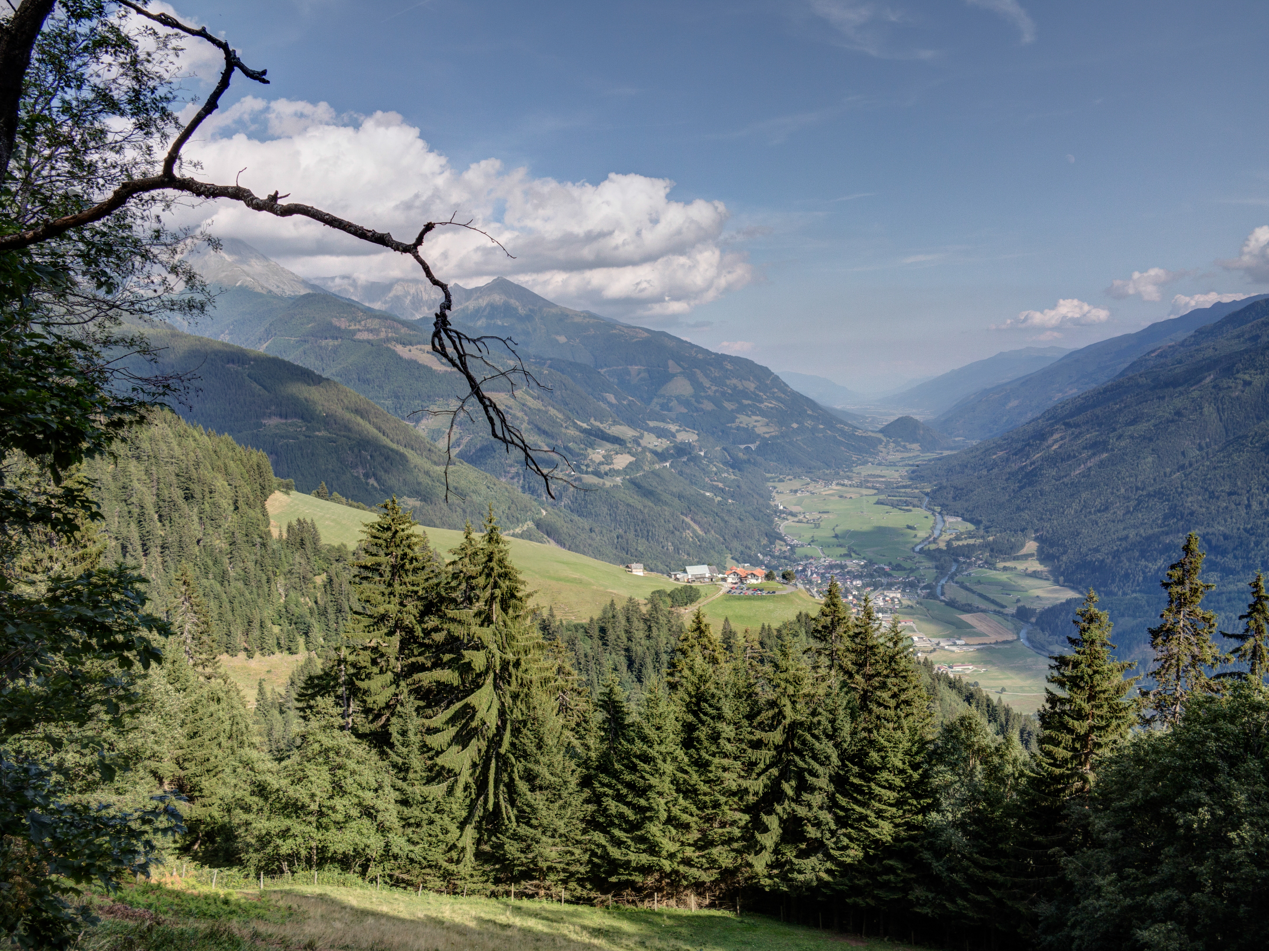 Himmelbauer, the Farm in the Sky in Oberwolliggen above Semslach near Obervellach in Carinthia / Austria / EU. Below the Mölltal at the height of Obervellach. View towards southeast to the Drau Valley. In the background the Mölltal with Daniel Mountain.